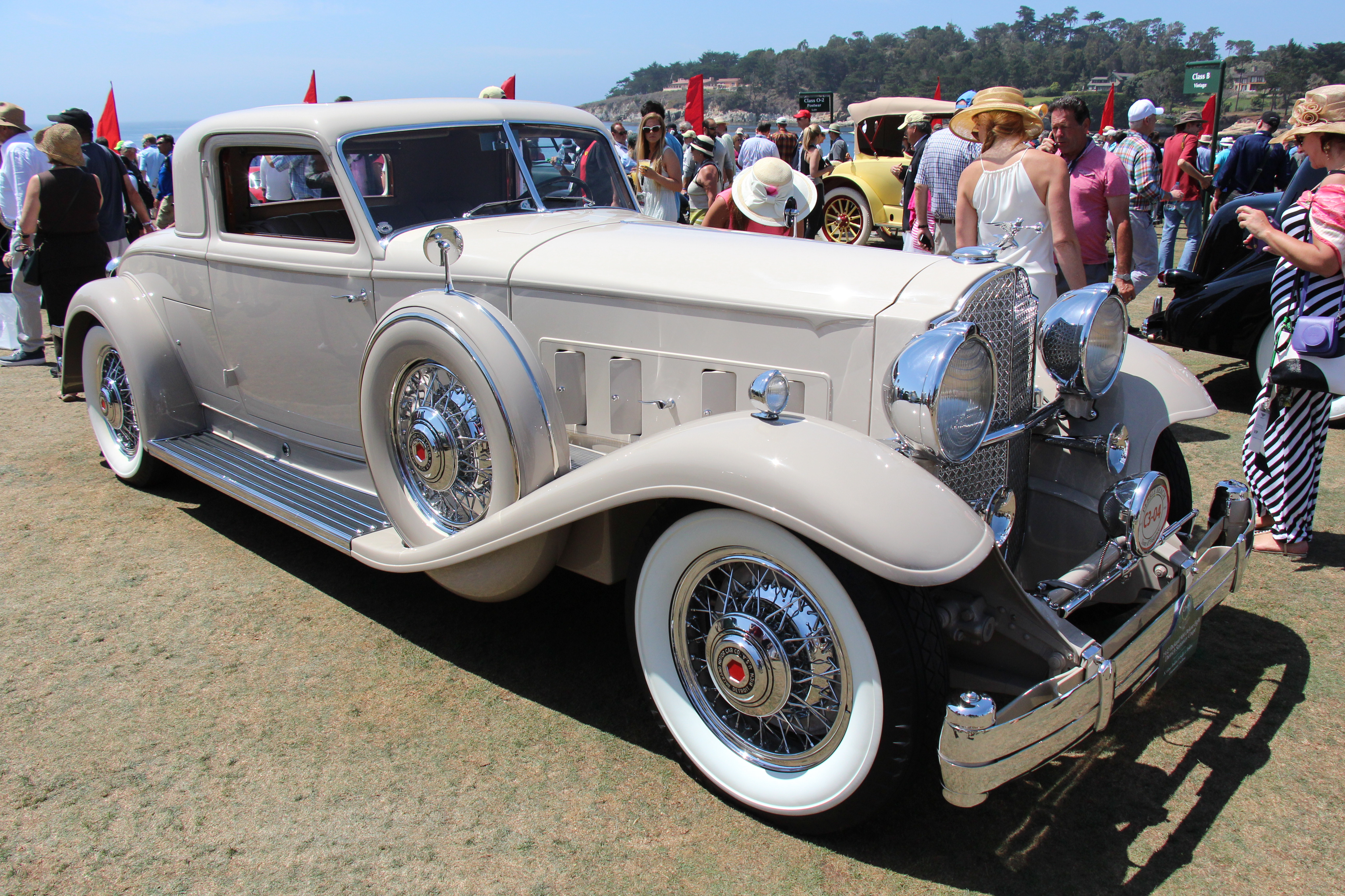 Packard was a luxury car built in America from 1899-1958. Between 1924 and 1930, Packard was also the top-selling luxury brand. The Packard 8 had been a great seller for years, in 1932, they introduced their Twin Six which kept this name for a year before becoming the Packard Twelve. With custom designed coachwork by Dietrich Incorporated of Detroit, Michigan, this Packard is considered one of the most stylish automobiles of the Classic Era and is particularly noted for its rakish chrome framed windshield design. Engine; 135hp 385 cu in straight 8 Photographed at the 2015 Pebble Beach Concours d'Elegance